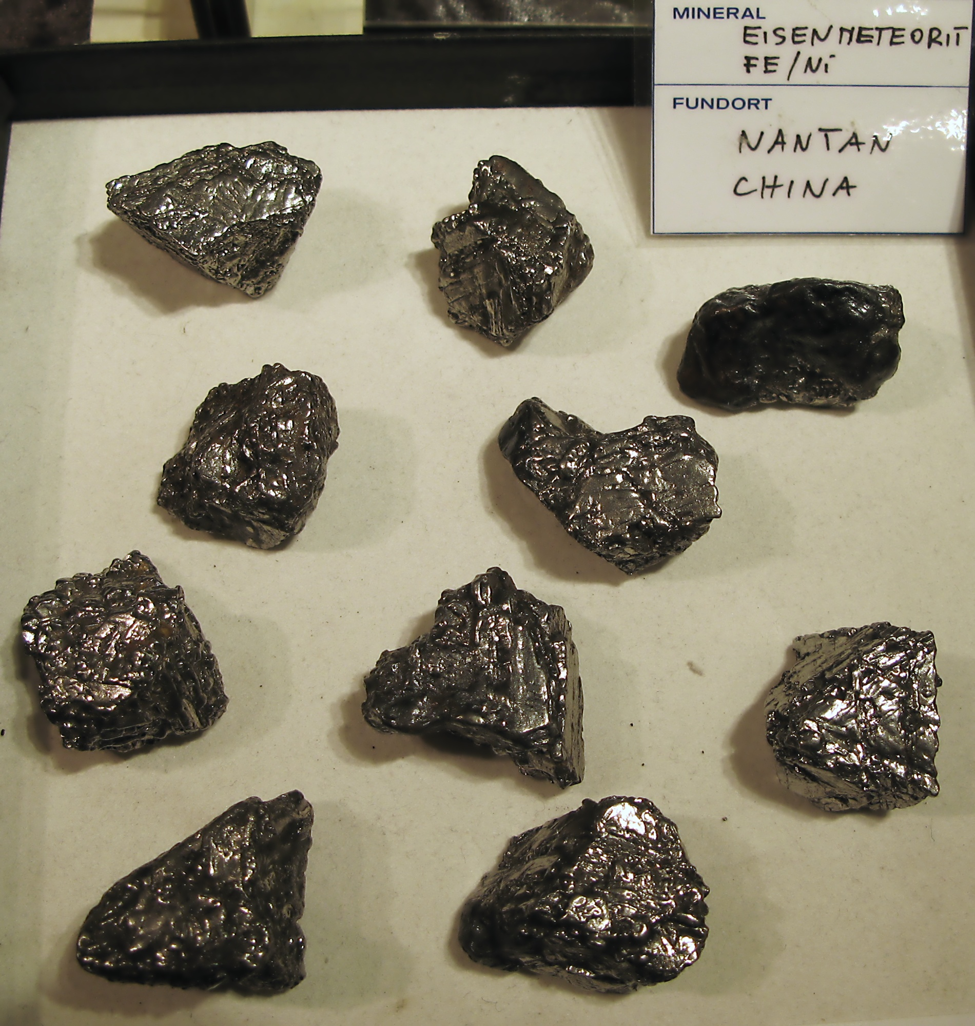 Severel iron meteorites from Nantan, China